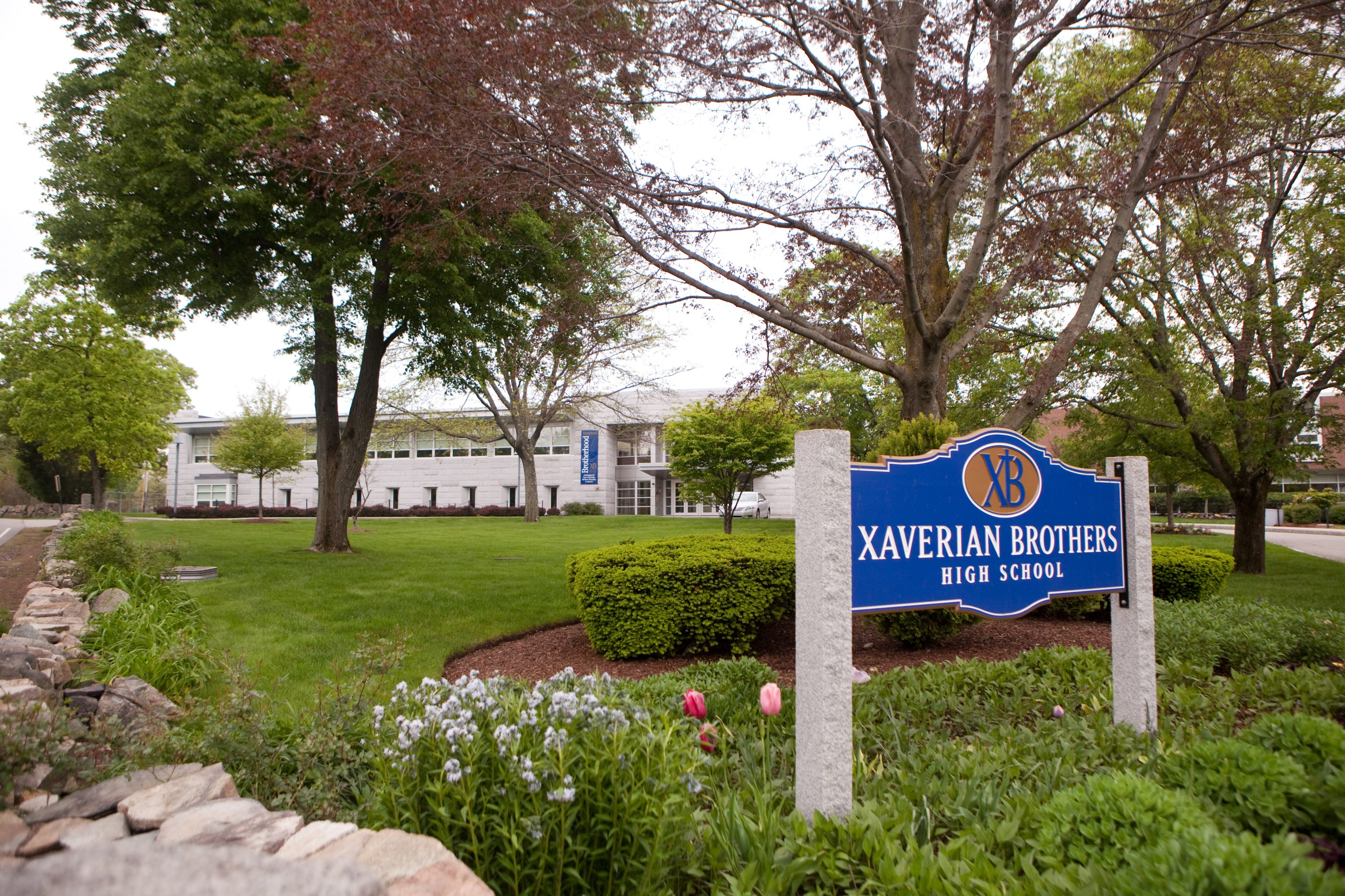 Main entrance to Xaverian Brothers High School